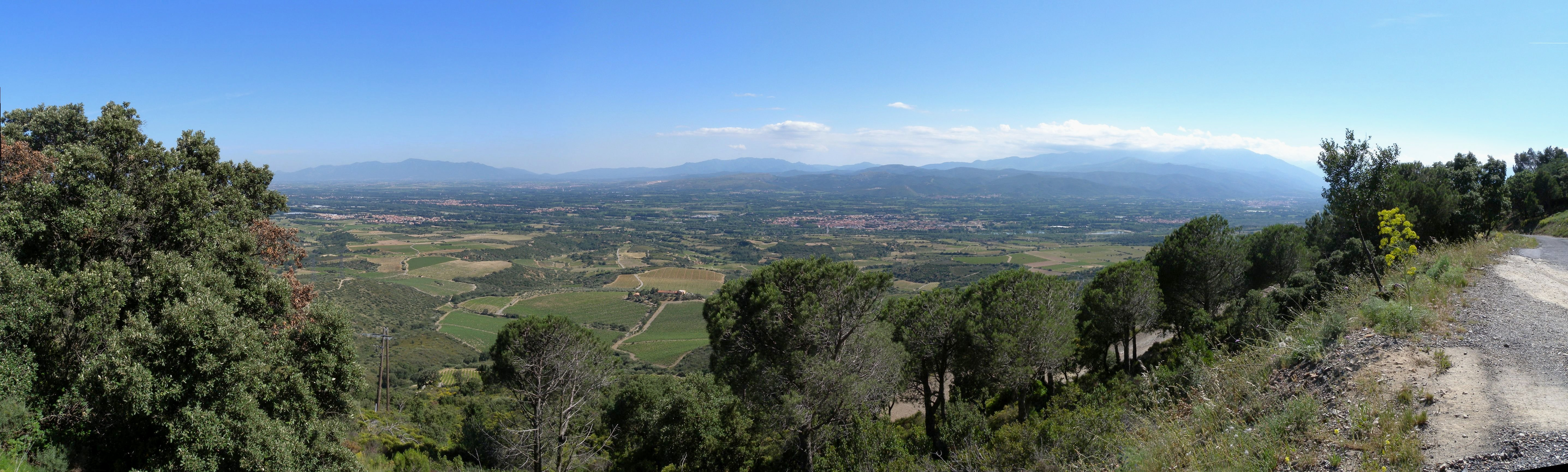 view from Força real towards East ; the mountain in the background is the Canigou